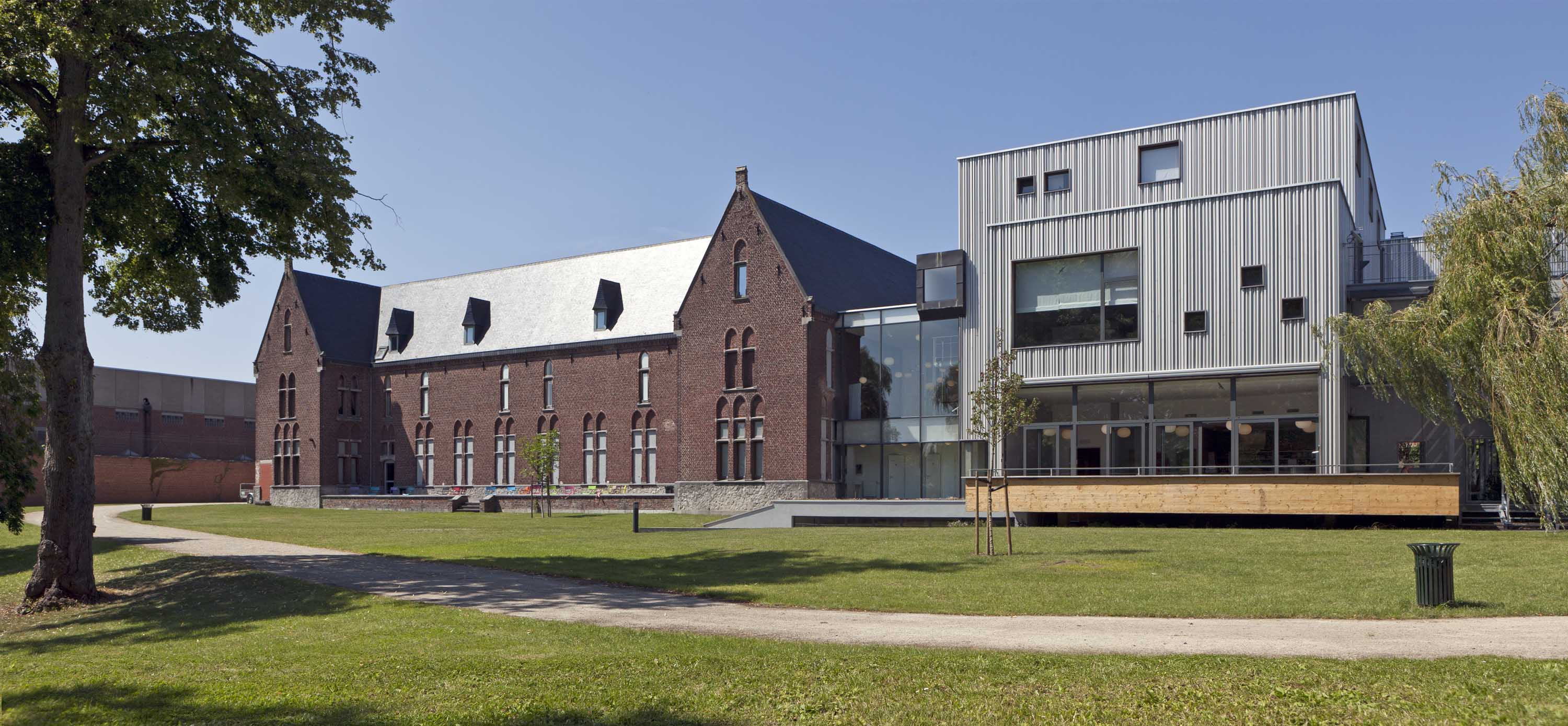 Museum of Photographie at Mont-sur-Marchienne near Charleroi, Belgium